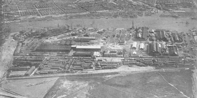 Osaka Iron Works Sakurajima Factory. Company was renamed to Hitachi Zosen in 1943. Factory was closed in 1997.